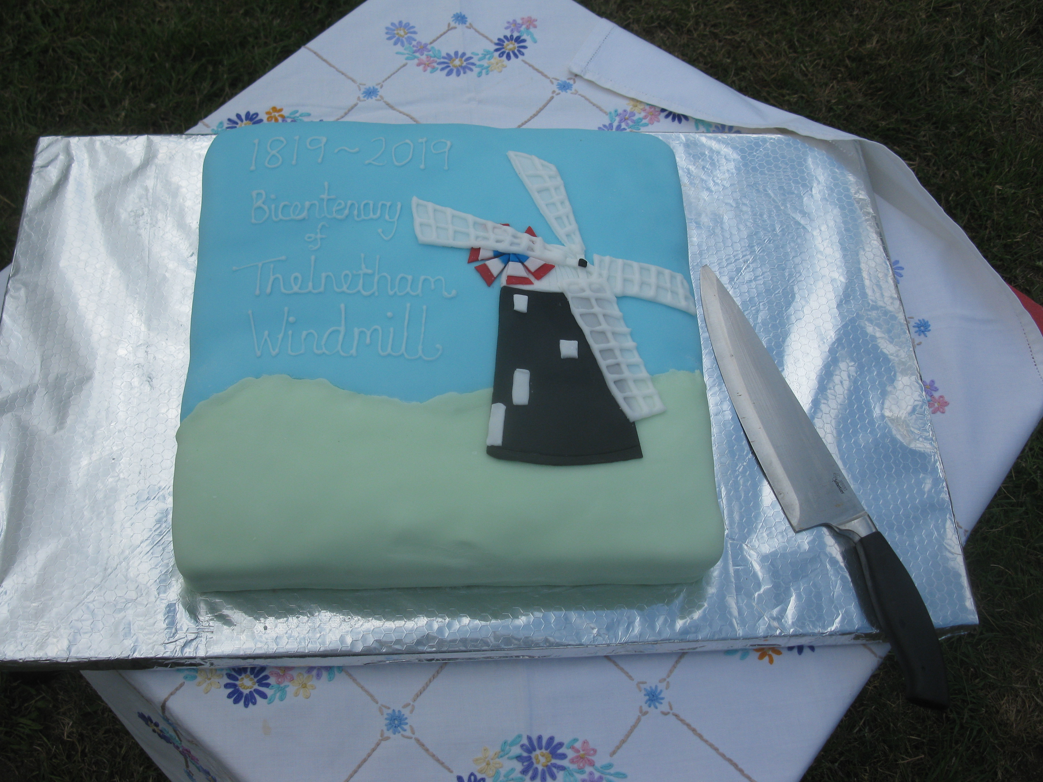 The birthday cake made to celebrate the 200th birthday of Thelnetham Windmill, seen before it was cut and eaten.